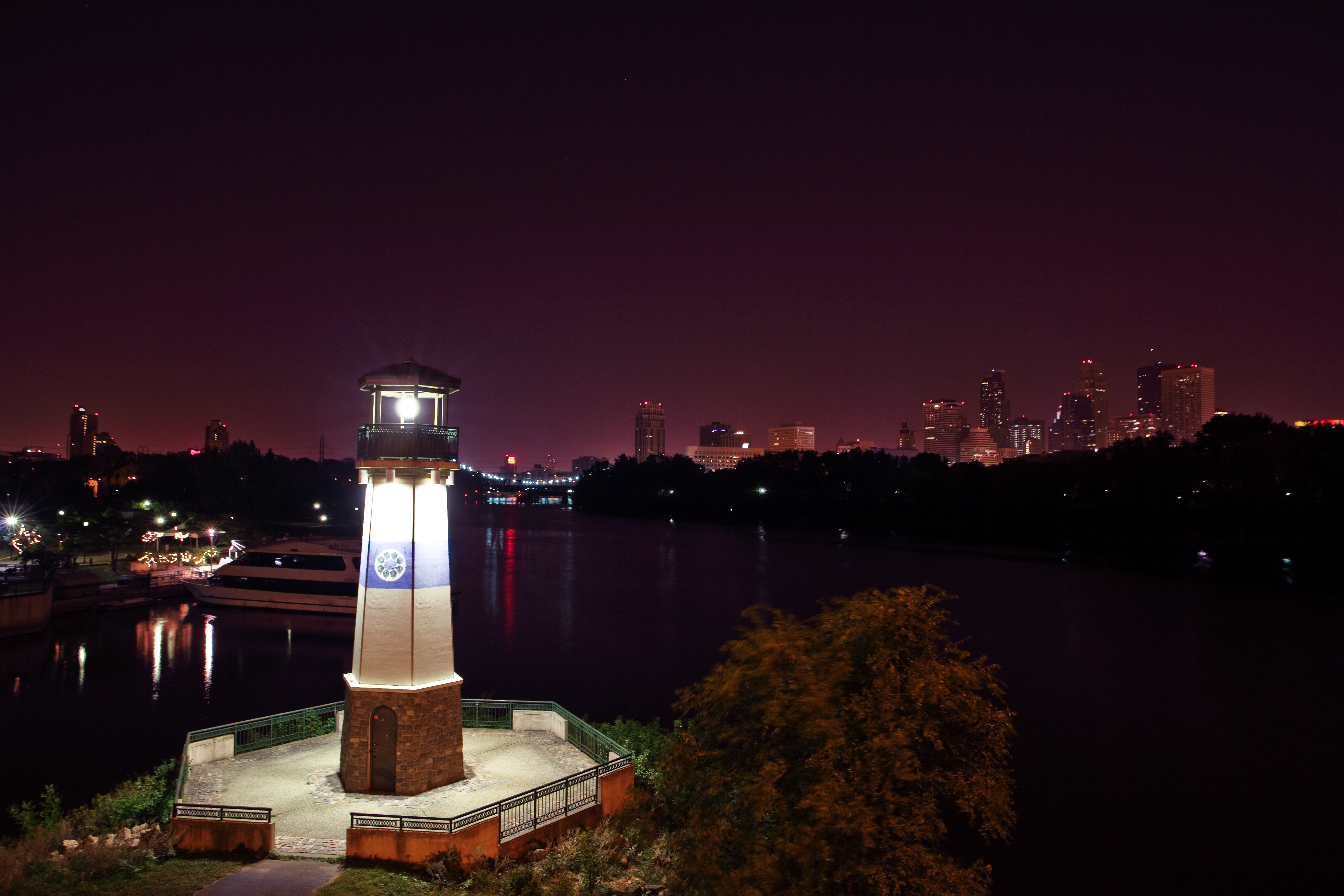 The Boom Island Lighthouse, with downtown Minneapolis in the background. Viewed from Plymouth Avenue Bridge.